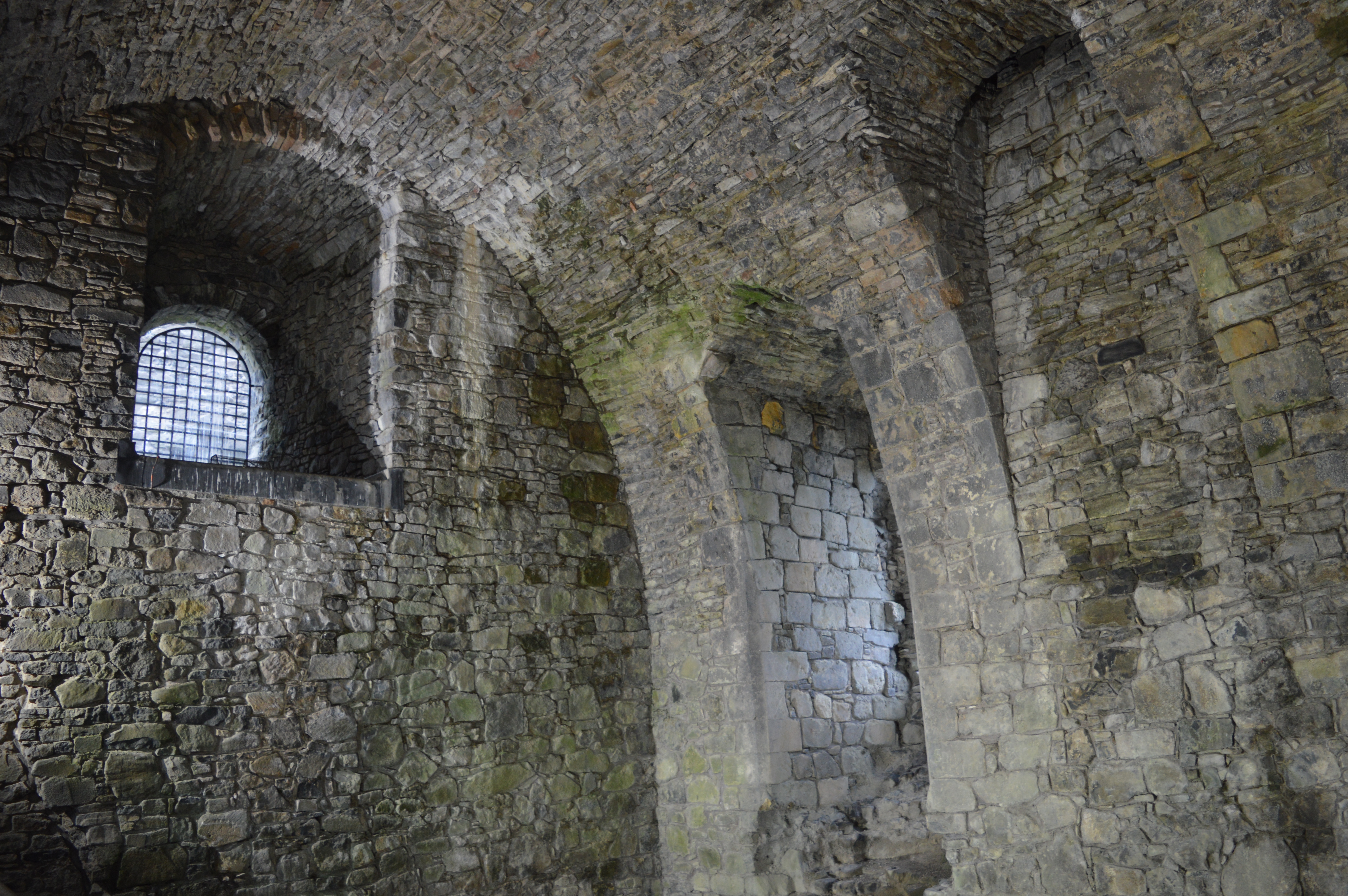 Dundonald Castle Wikidata has entry Q2844574 with data related to this item.